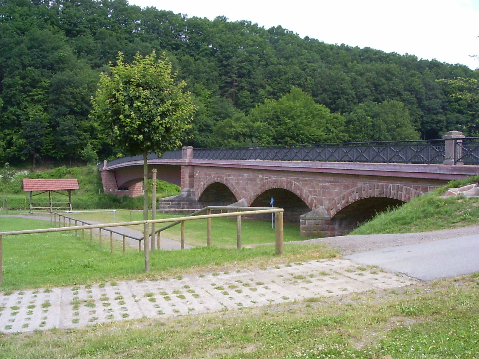 The bridge of Lindewerra